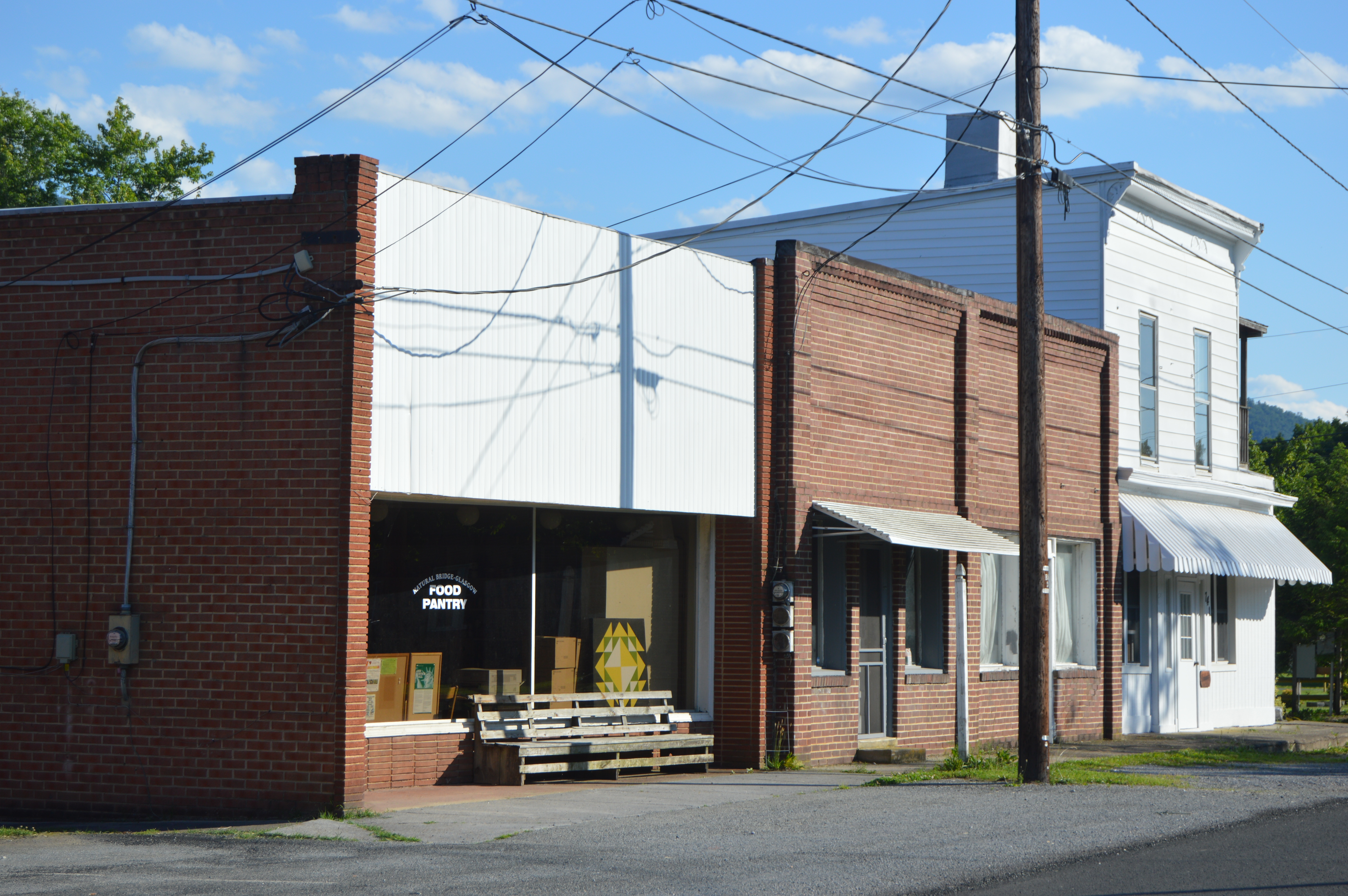 Commercial buildings on the southeastern side of McCullough Street, northeast of Blue Ridge Road, in Glasgow, Virginia, United States. This block is part of the Glasgow Historic District, a historic district that is listed on the National Register of Historic Places.